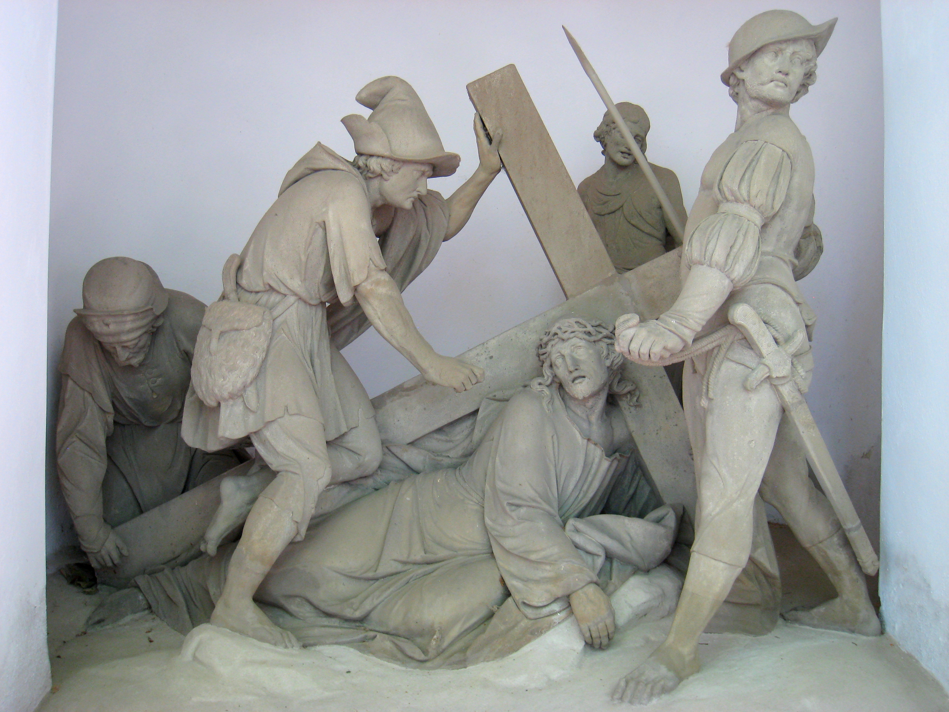 Stations of the cross (Kreuzweg), #7, Käppele, Würzburg, Germany.